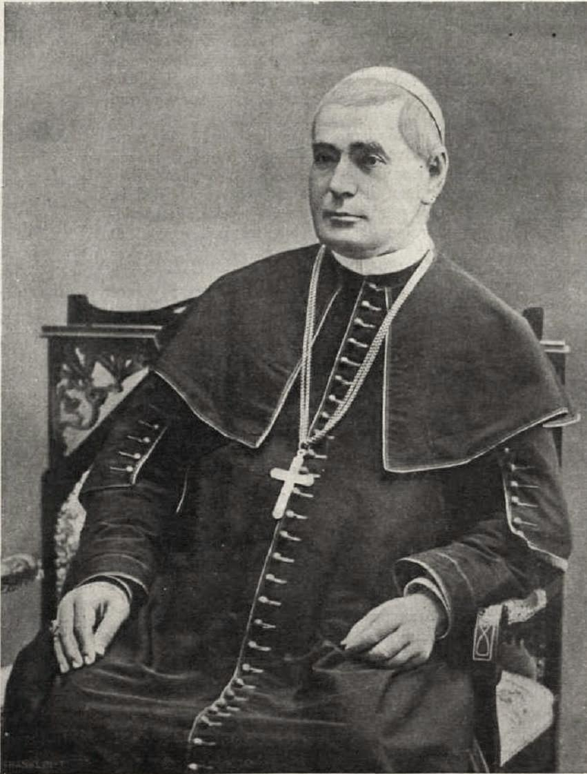 János Csernoch